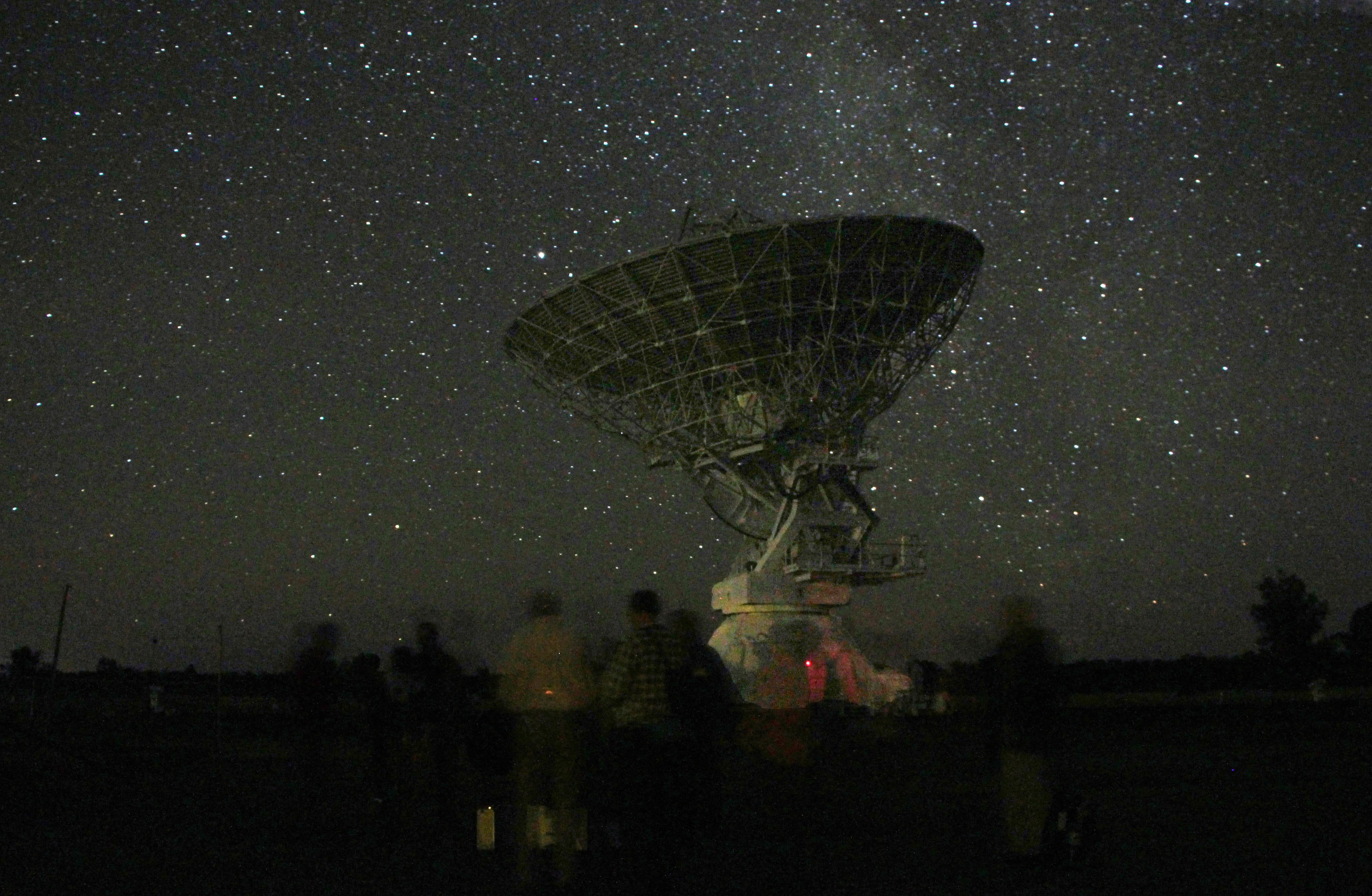 Star gazing beside the Australia Telescope Compact Array, as part of its 25th anniversary celebrations on 1 September 2013.